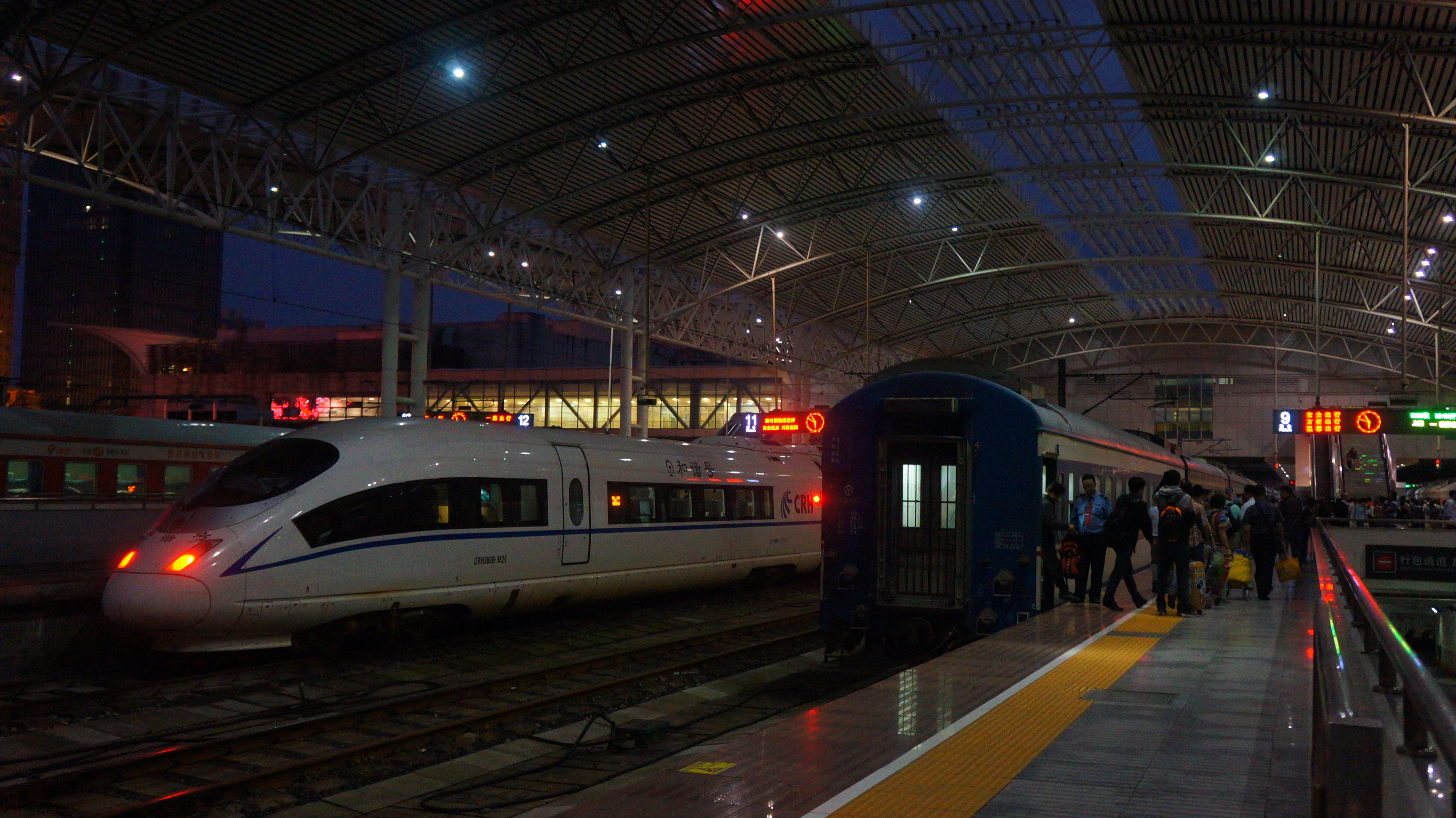 201510 T206 and G7364 at SHA